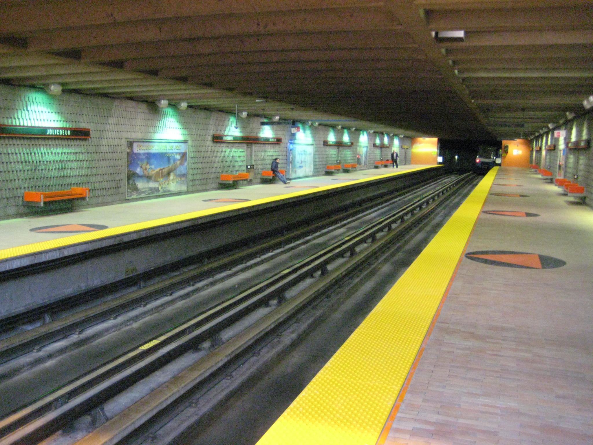 Jolicoeur Station, Montreal Metro